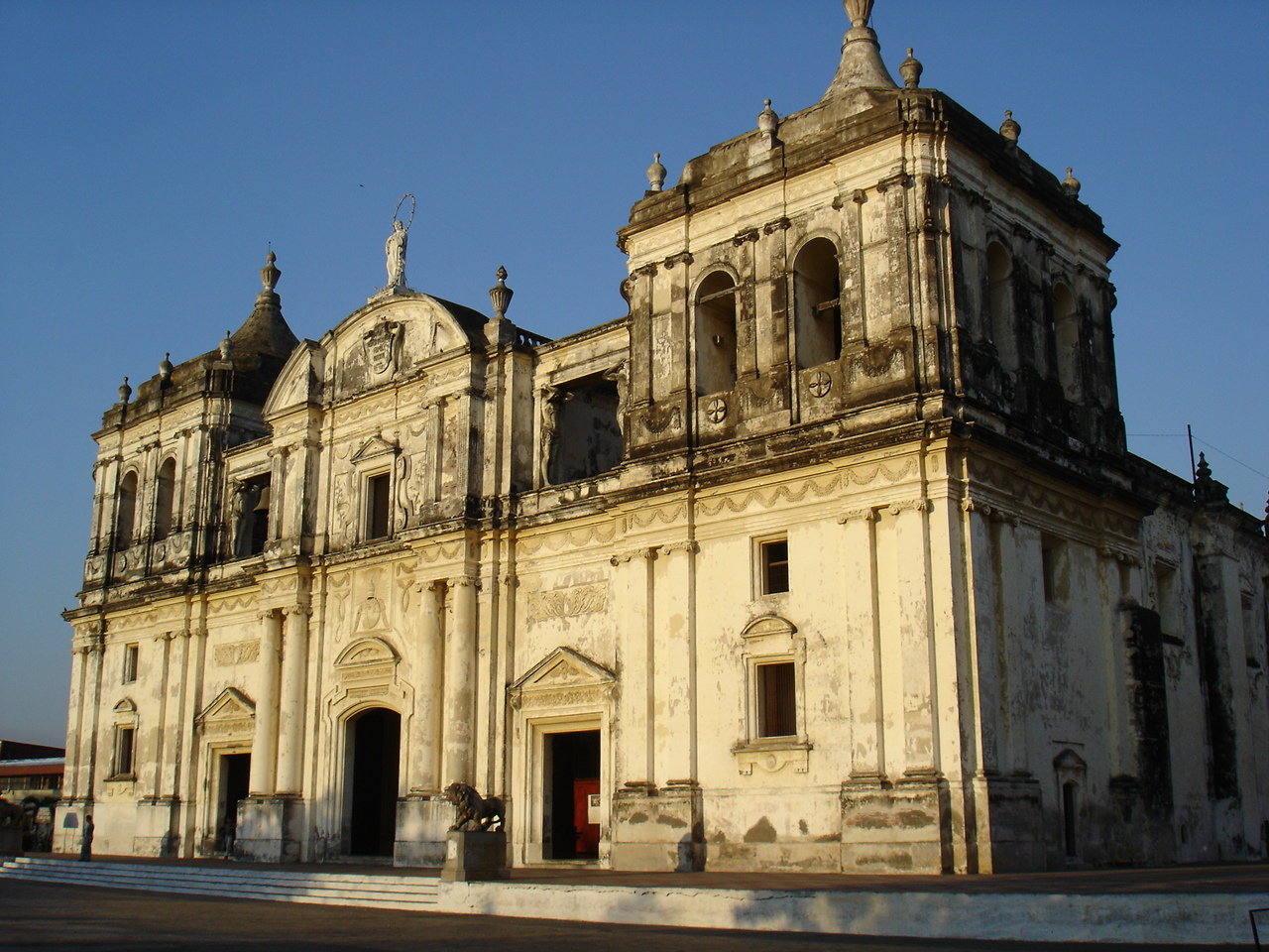 Cathedral of León, Nicaragua, biggest Cathedral in Central America